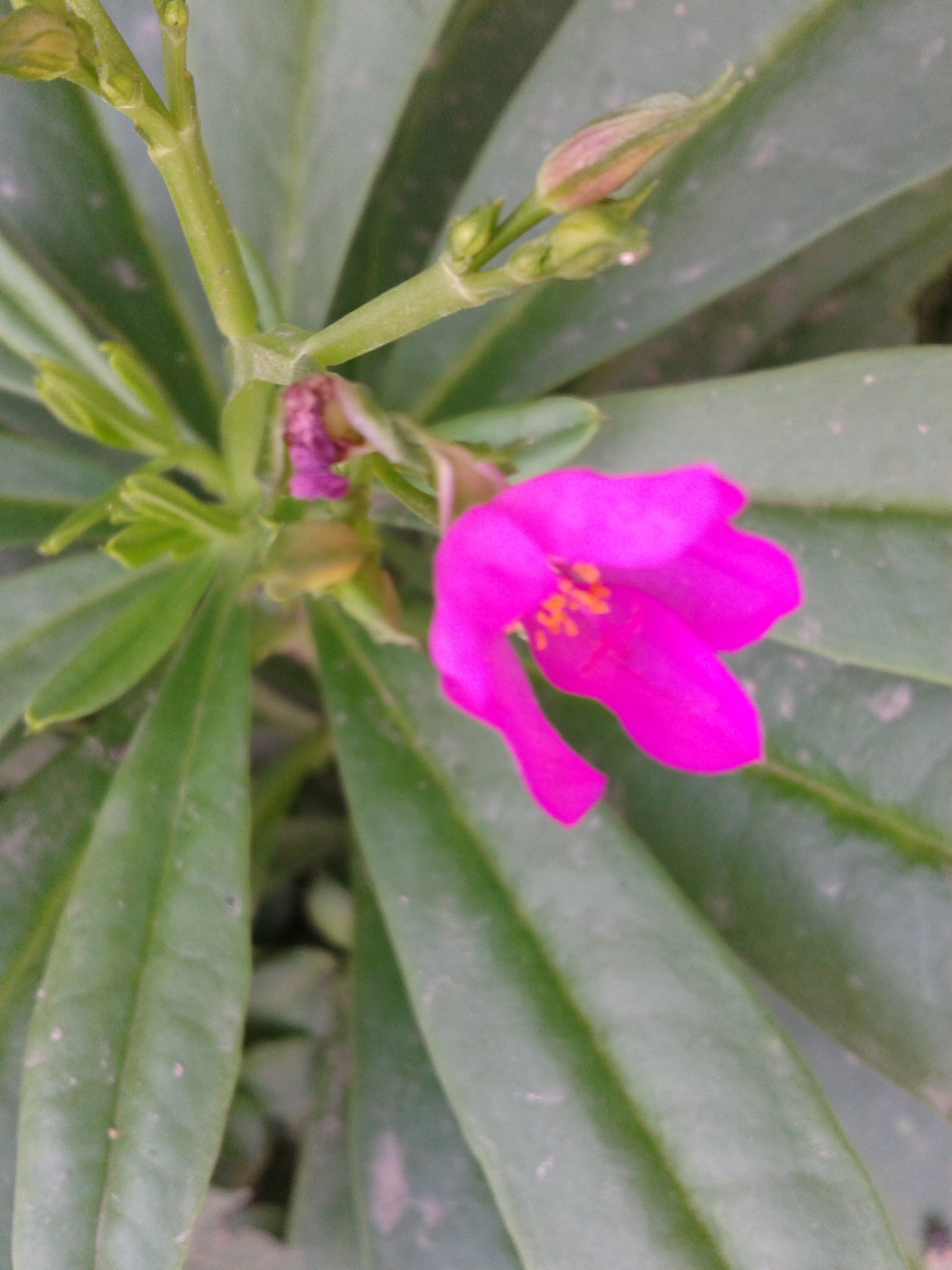 Botanical name - Talinum paniculatum Common names - Akar Som jawa ; Akar songsong Tamil name – THARAIP PASALAI ‘ground greeny’ Origin: Tropical America Leaf is eaten raw ; Plant is usedl to treat Pneumonia, Diarrhea, Irregular menstruation, Vaginal discharges. Root is used to treat impotence and respiratory problems ; For Asthma also this is given as medicine. Picture - Flower of 'Akar song song'amidst leaves .